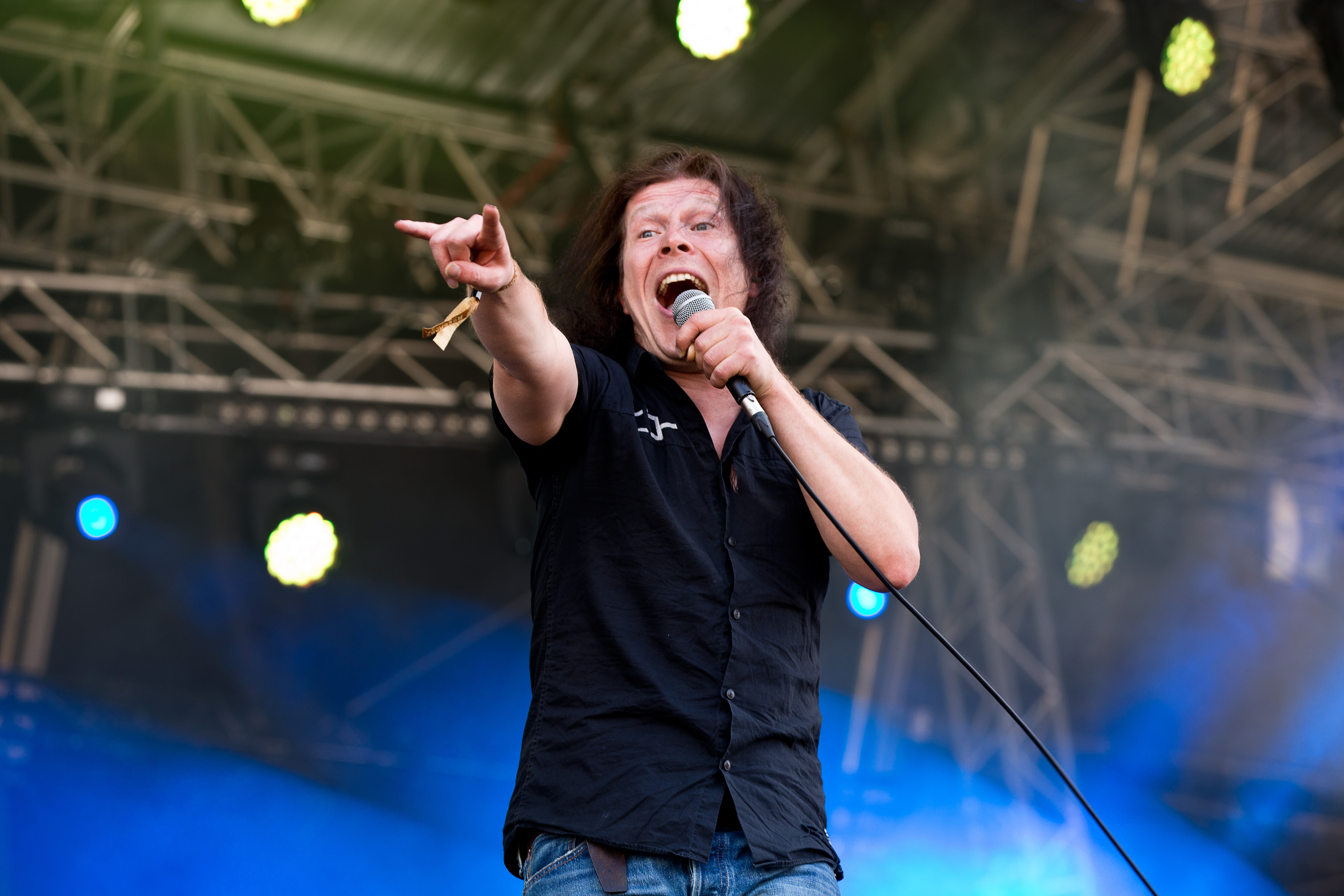 The Finnish melodic death metal band Omnium Gatherum at the Rockharz Open Air 2016 in Ballenstedt/Germany.